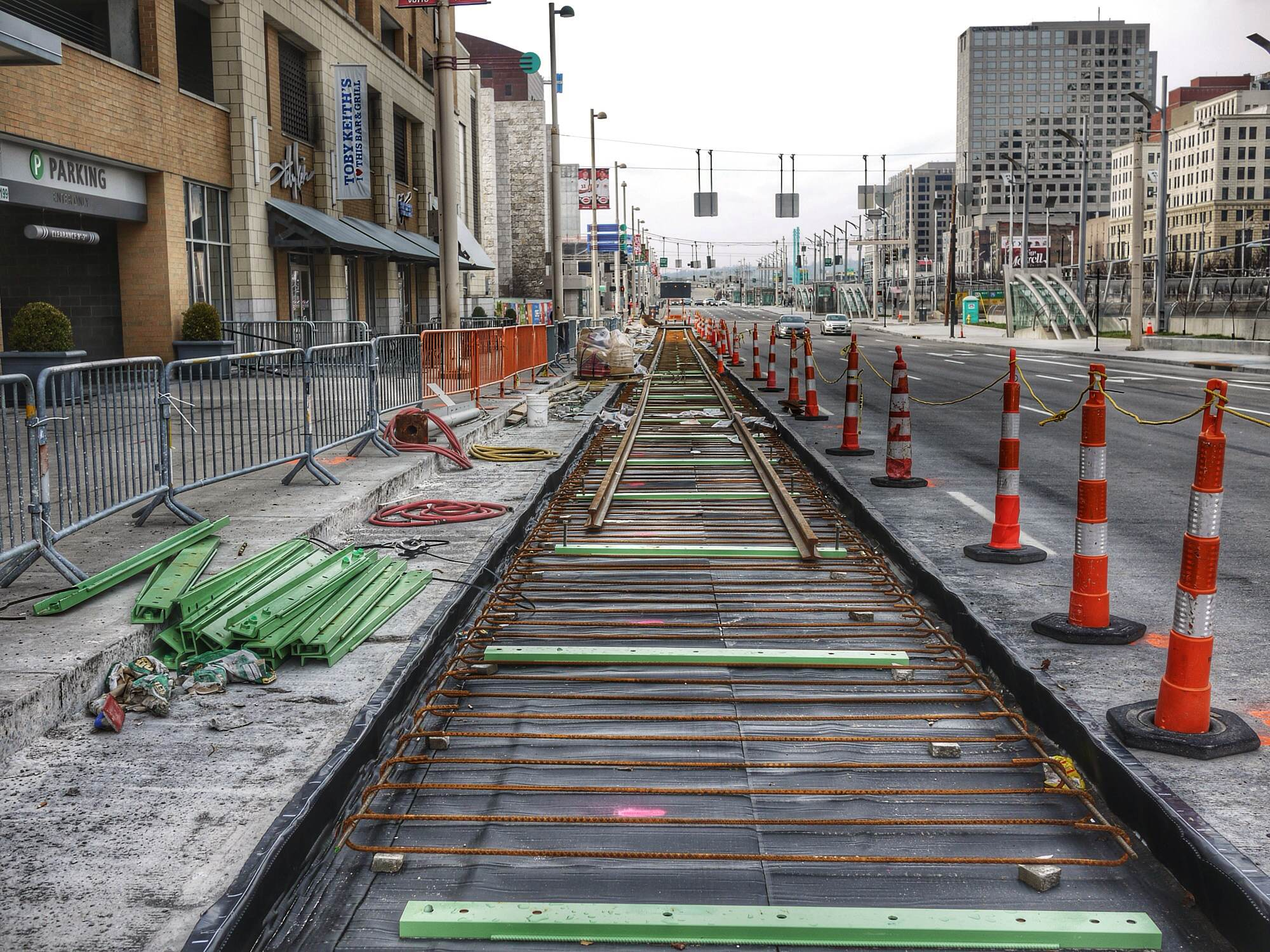 2nd St at Main St Construction of the Cincinnati Streetcar